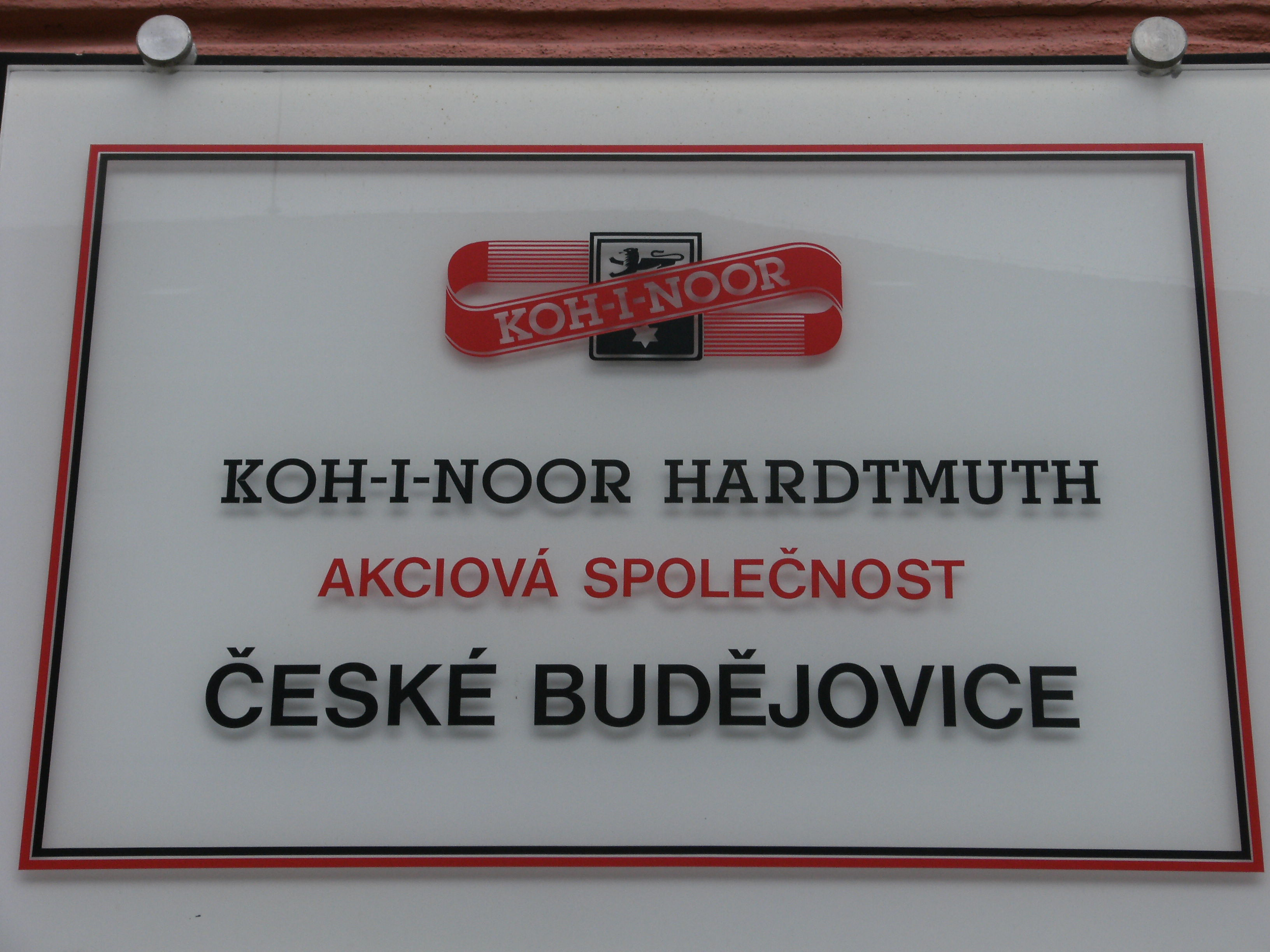 Koh-i-noor Hardtmuth České Budějovice.